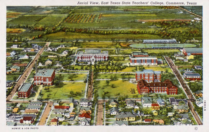 Postcard aerial view of East Texas State Teachers College.